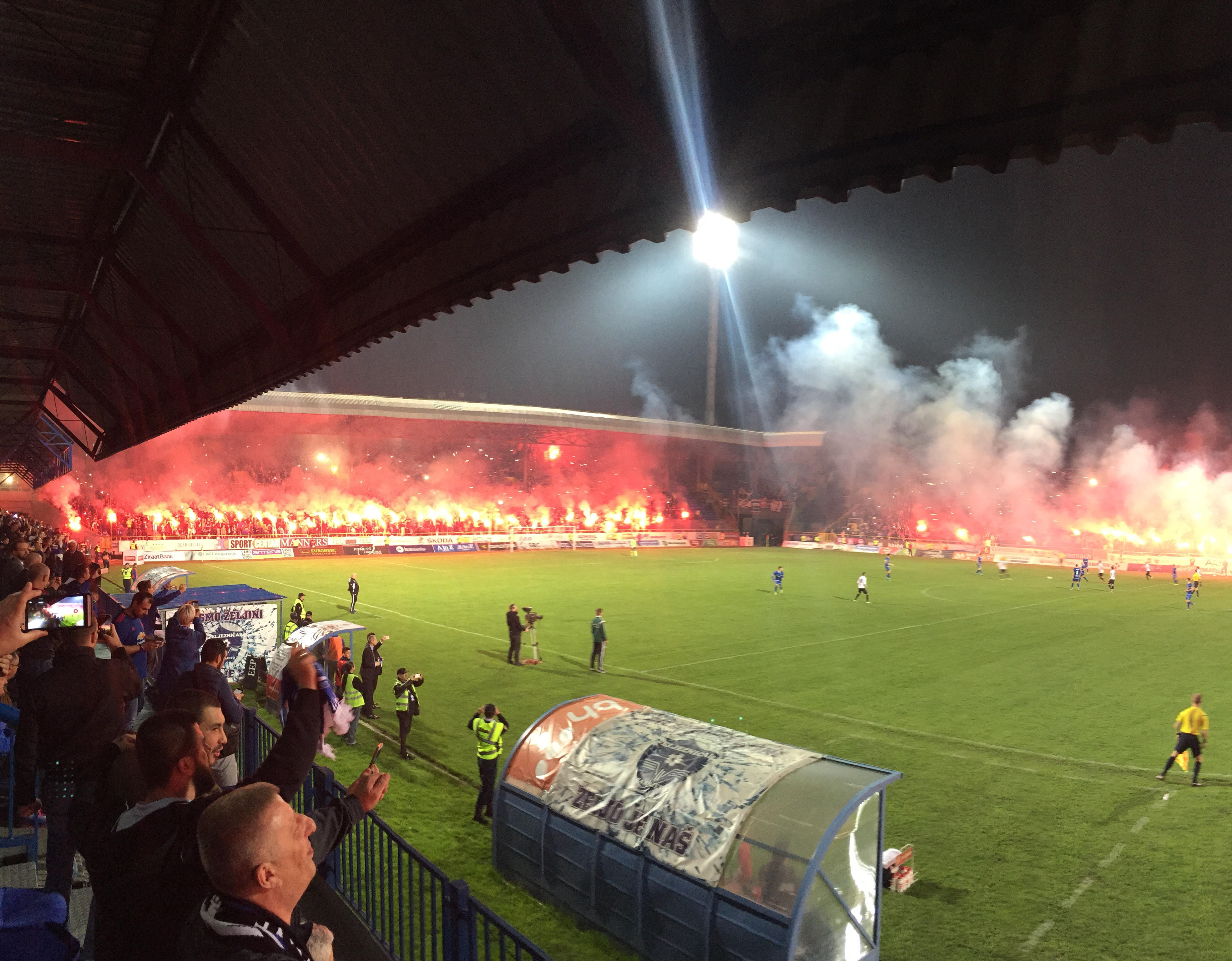 Željezničar football club fans in 2017